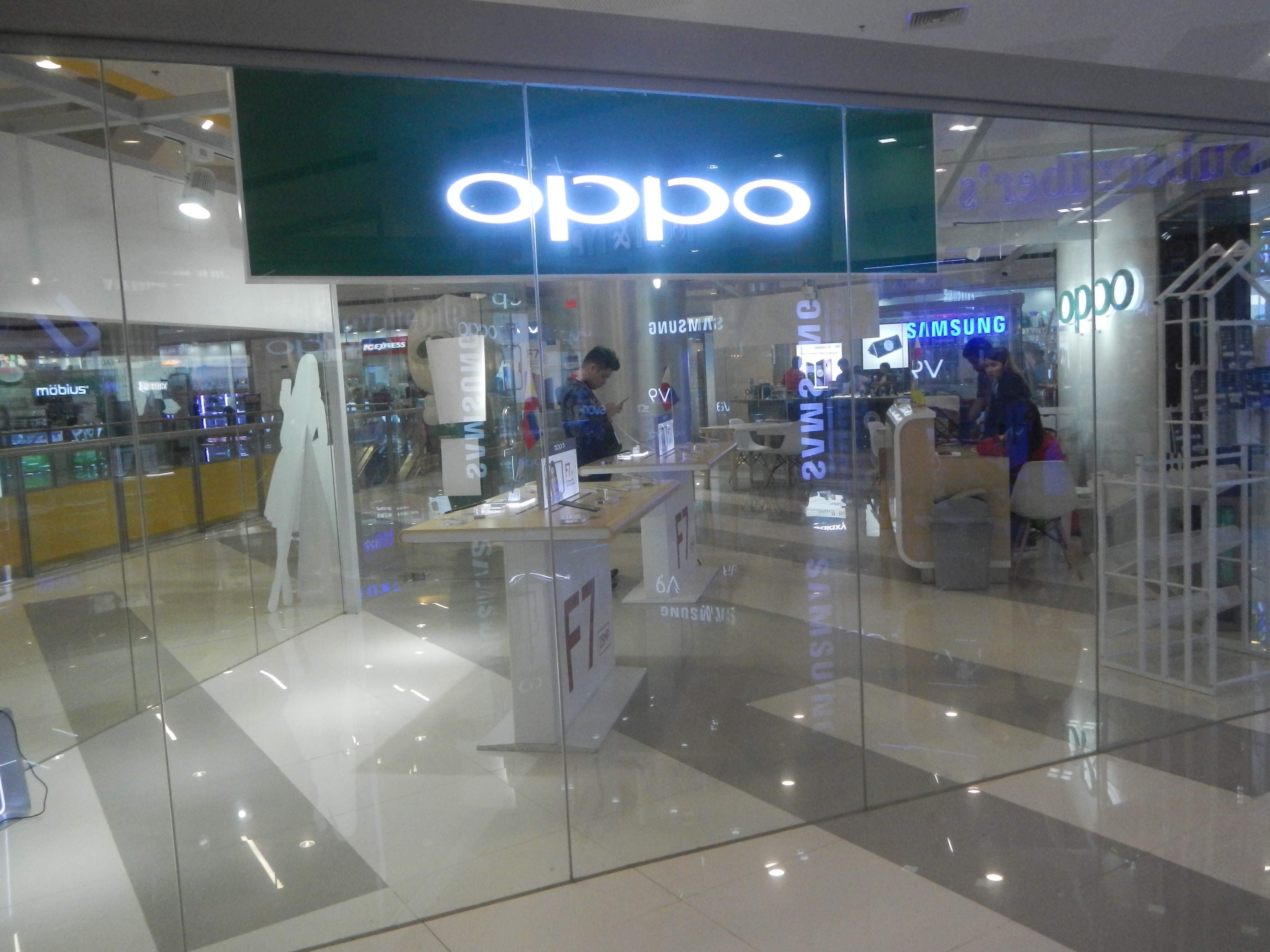 Executive Optical, Watsons shops in the Philippines, Miniso in the Philippines, Octagon Computer Superstore, Oppo Electronics, Cherry Mobile (Note: Judge Florentino Floro, the owner, to repeat, Donor Florentino Floro of all these photos hereby donate gratuitously, freely and unconditionally all these photos to and for Wikimedia Commons, exclusively, for public use of the public domain, and again without any condition whatsoever).